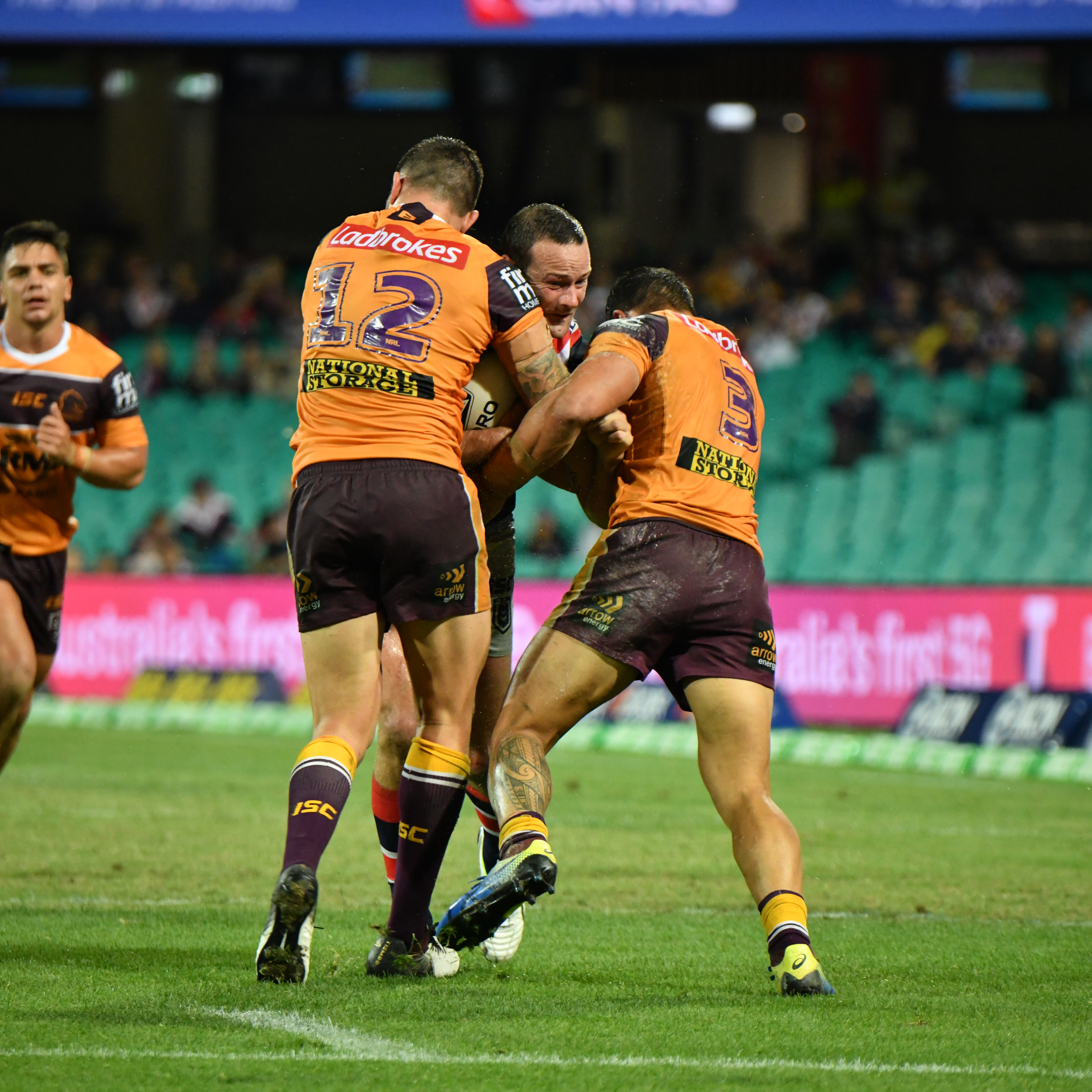 Boyd Cordner